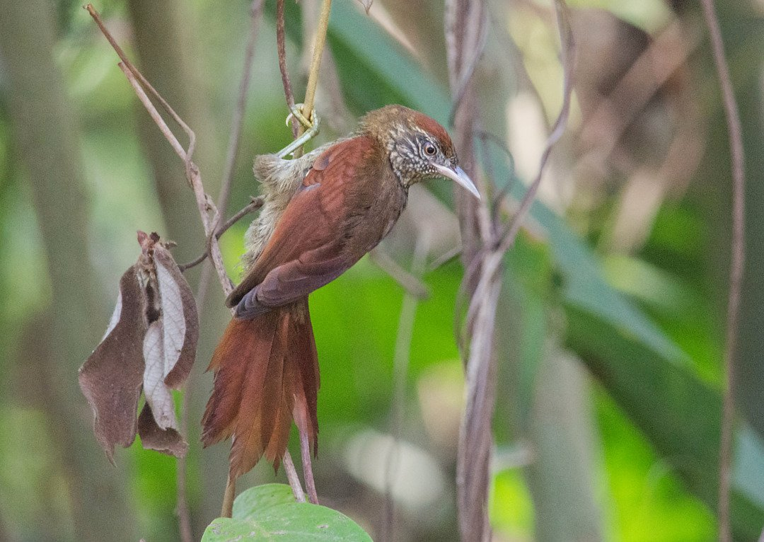 Scaled Spinetail; Mazagão, Amapá, Brazil